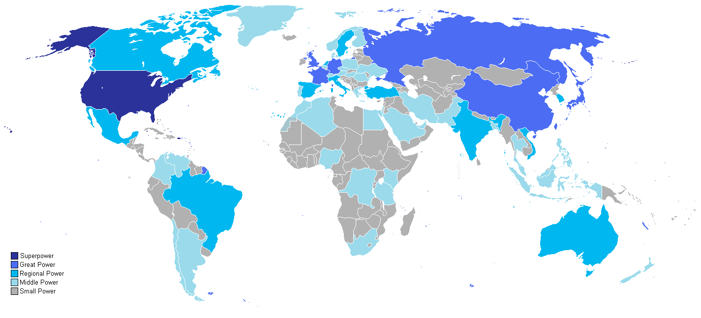 Modified to include all middle powers.